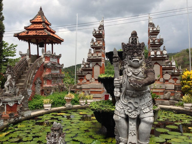 Picture of Brahmavihara-Arama Buddhist Temple taken the first time I visited Bali. Statues and architecture have local Hindu influence, which makes this temple particularly unique.